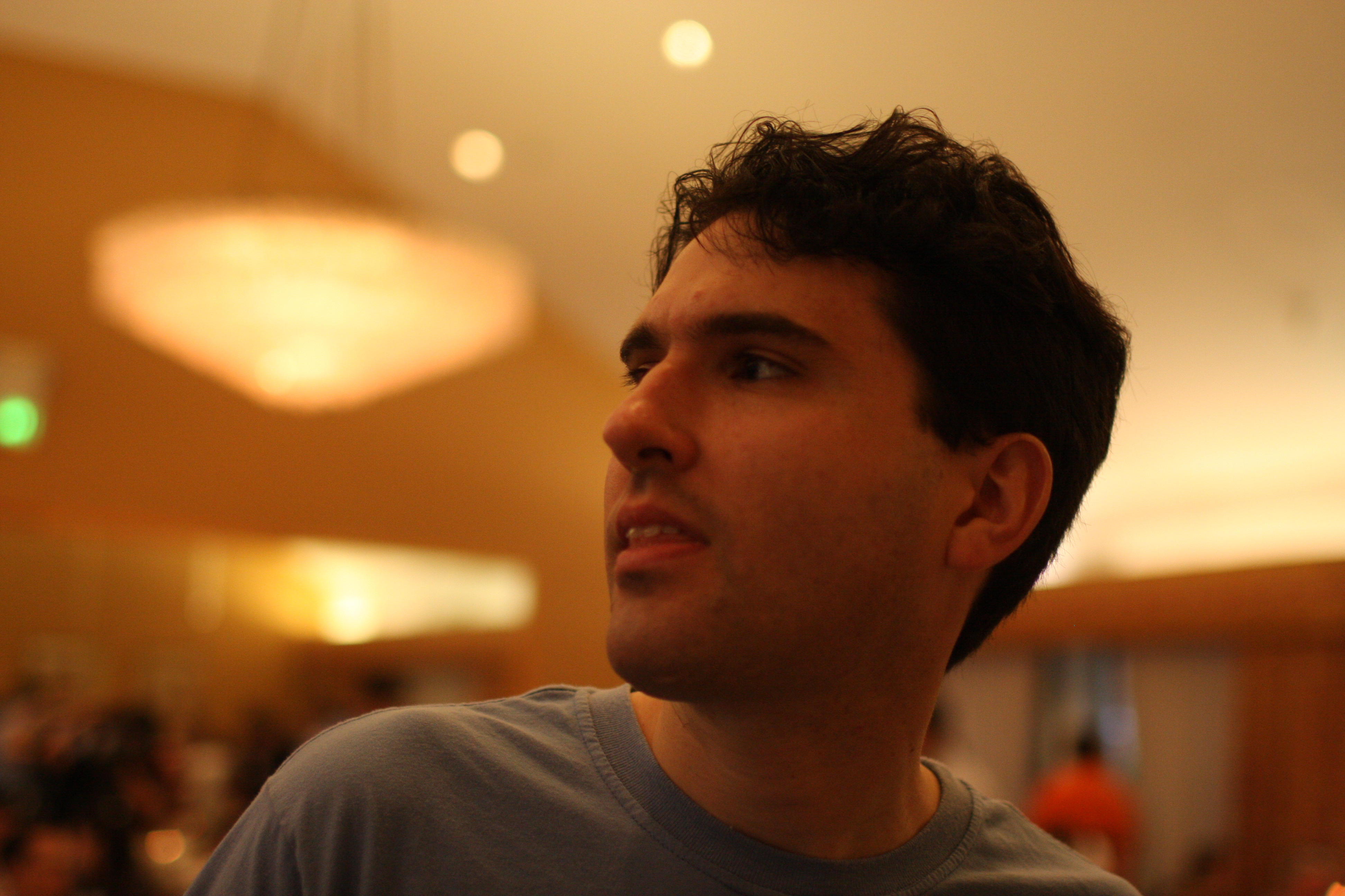 (CC) Brian Solis, and . Feel free to use this picture. Please credit as shown.